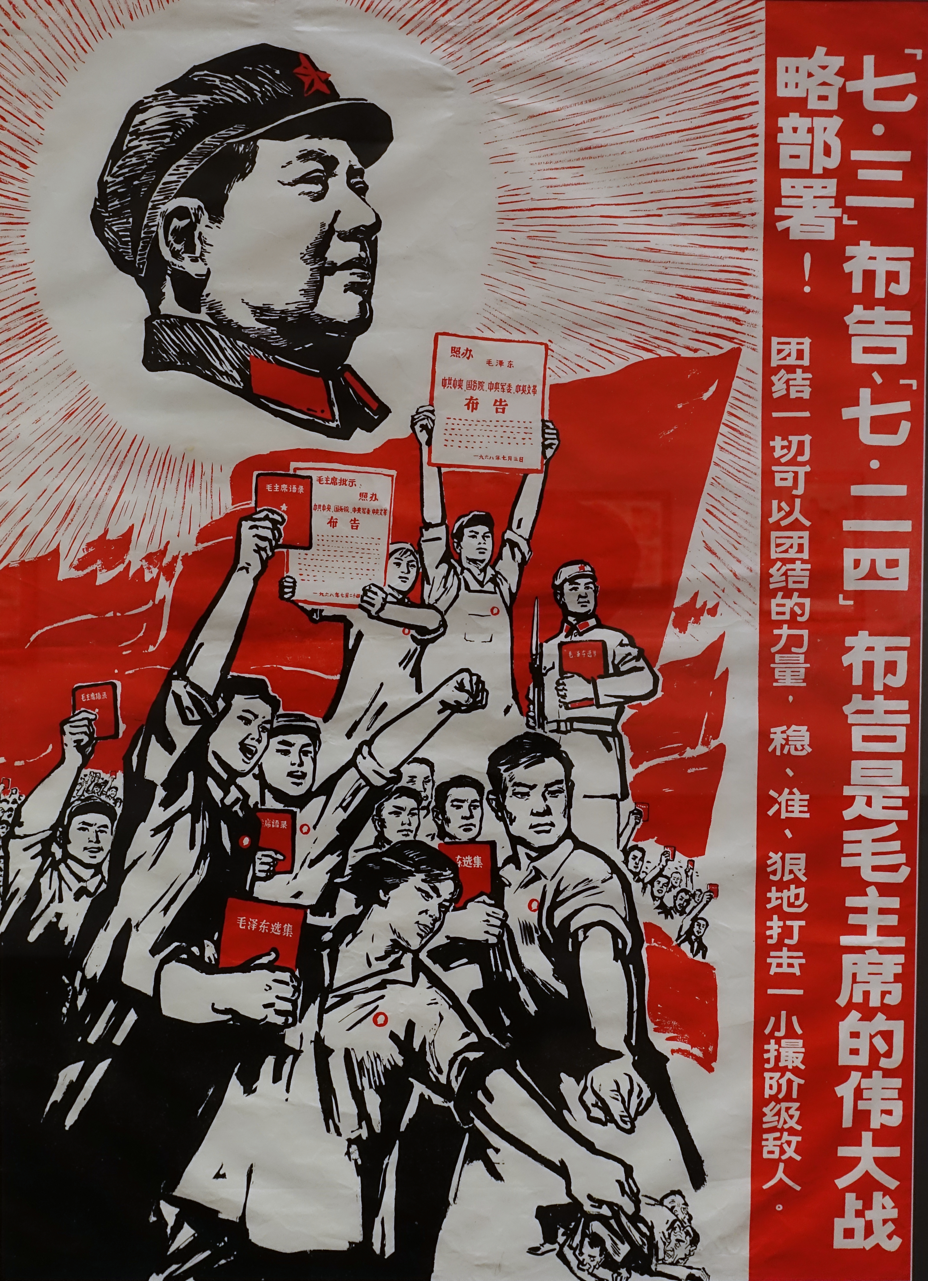 Exhibit in the Jordan Schnitzer Museum of Art, University of Oregon - Eugene, Oregon, USA.